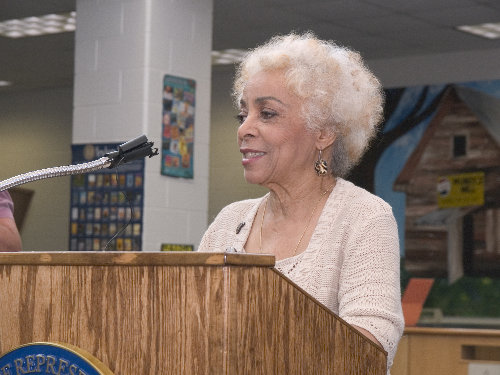 Actress Ruby Dee speaks to attendees at a special luncheon hosted by Georgia Cares and Rep. David Scott.